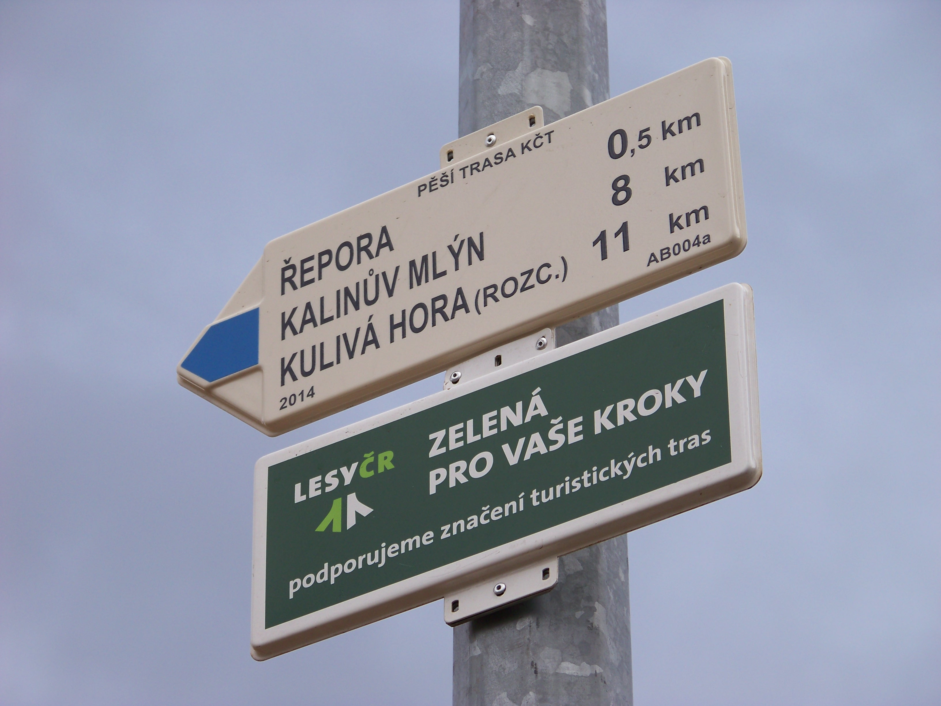 Prague-Stodůlky, Czech Republic. Náměstí Junkových, a new hiking fingerpost near the Stodůlky metro station.